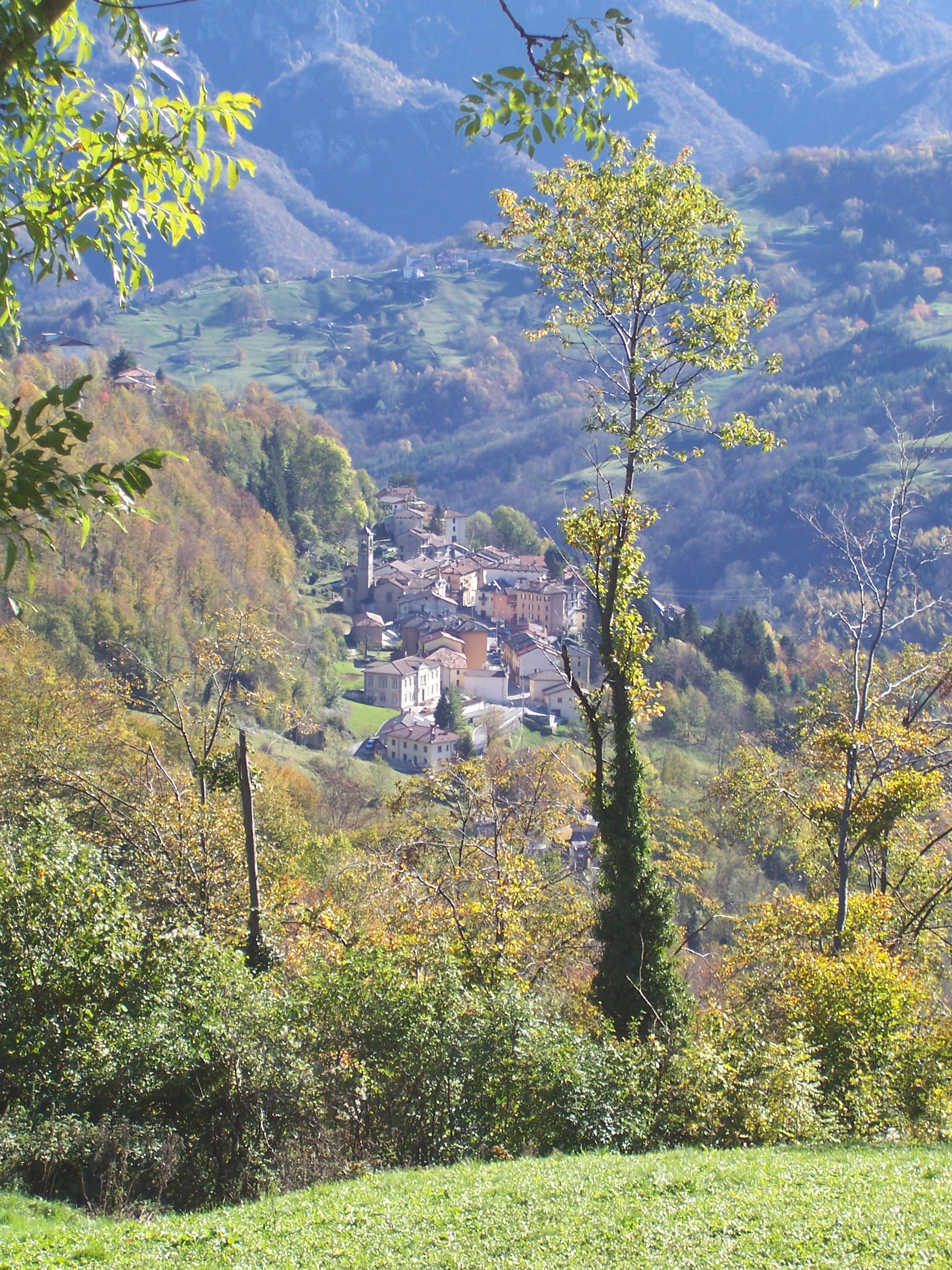 Olda (Taleggio, BG), Lombardy, Italy